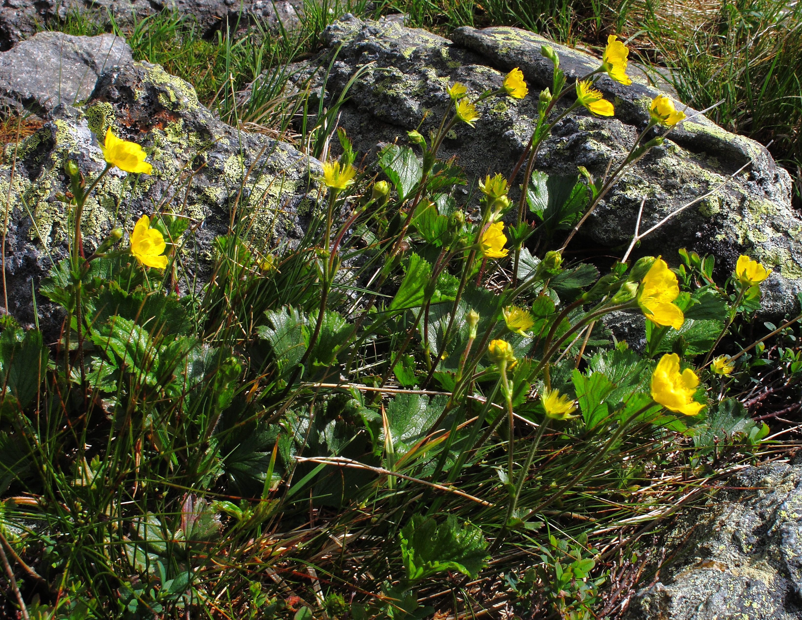 Mountain avens, Geum peckii